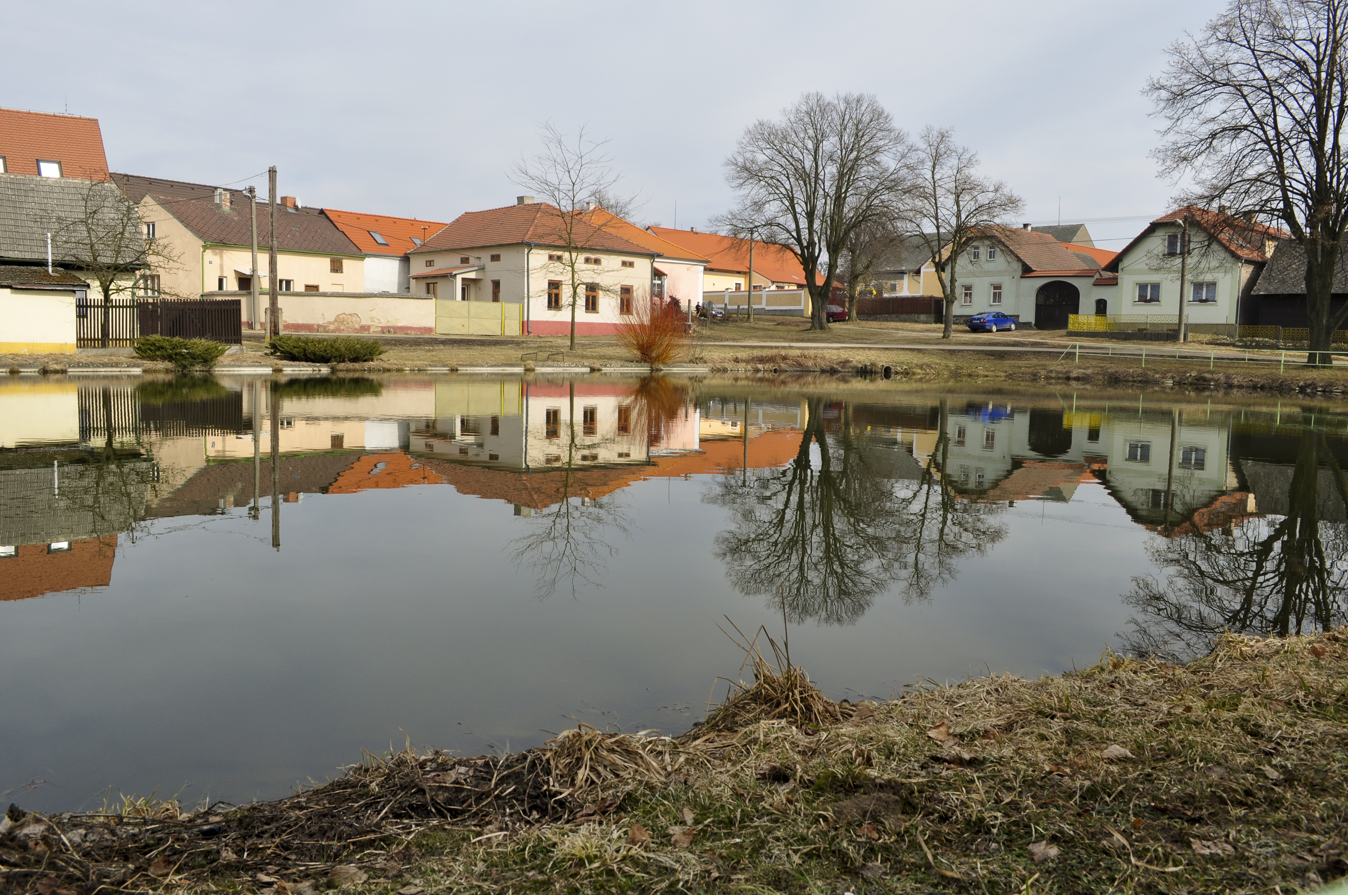 Village green with pond